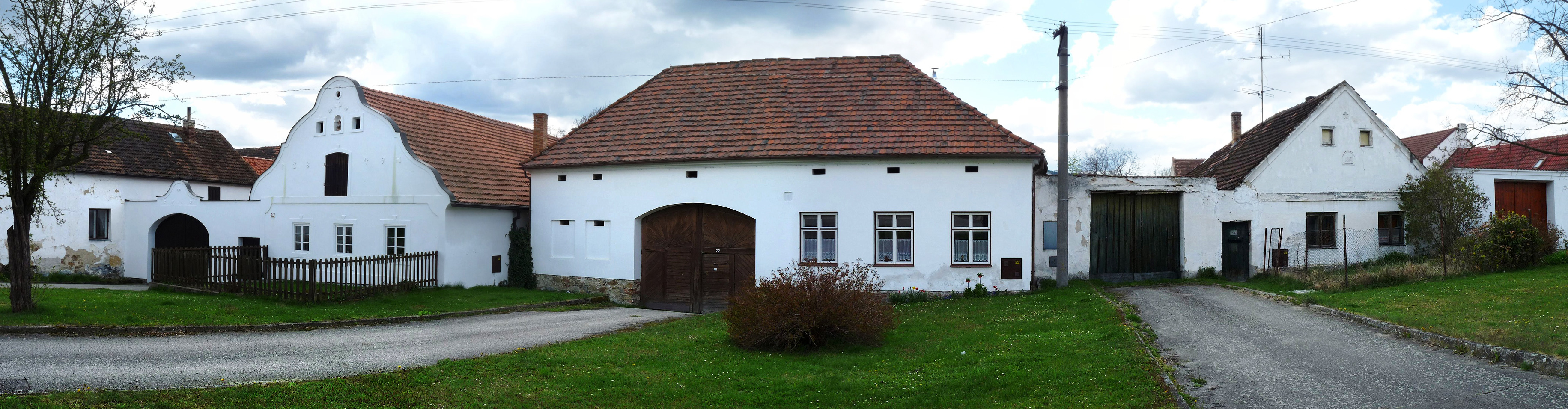 Houses Nos 21, 22 and 37 in the village of Lipí, České Budějovice, Czech Republic.